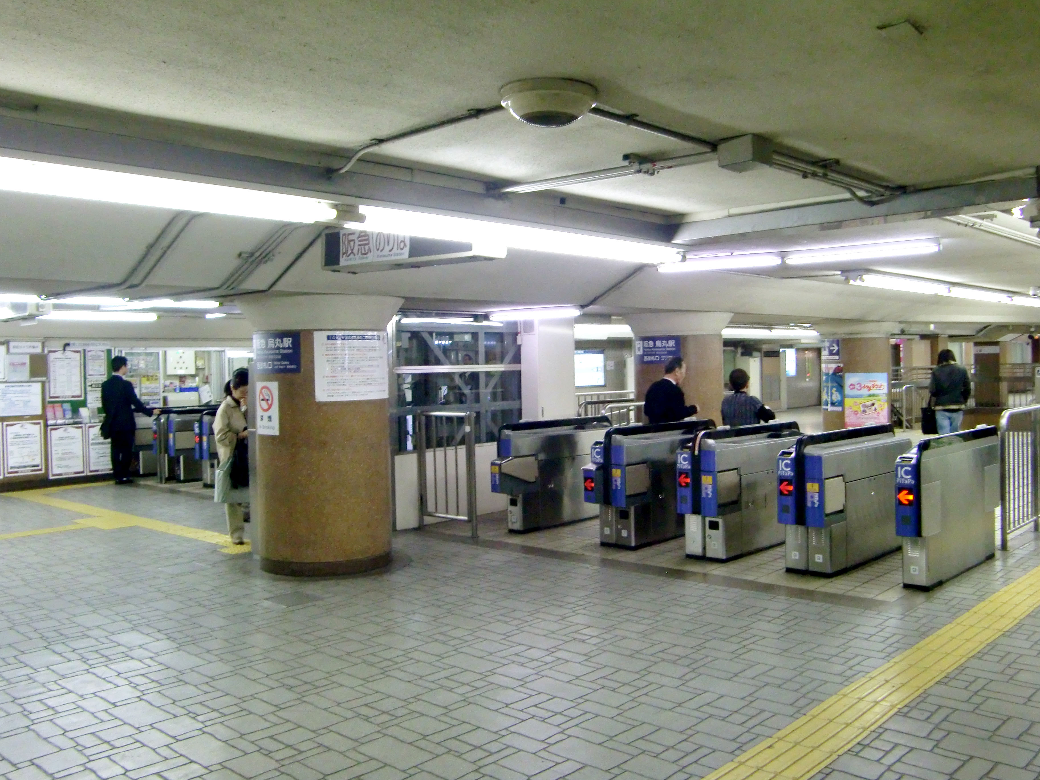 Hankyu Karasuma Station West Gates,Shijyodori-karasuma Shimogyo-ku Kyoto-City JAPAN.